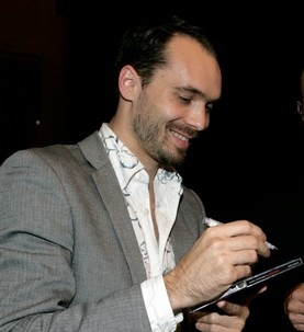 autograph